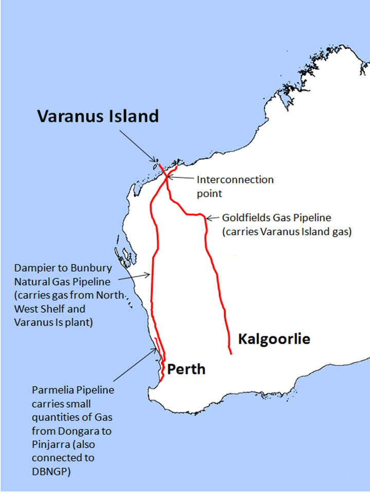 Map of Australia showing the approximate locations of key gas infrastruture related to the 2008 WA Gas Crisis